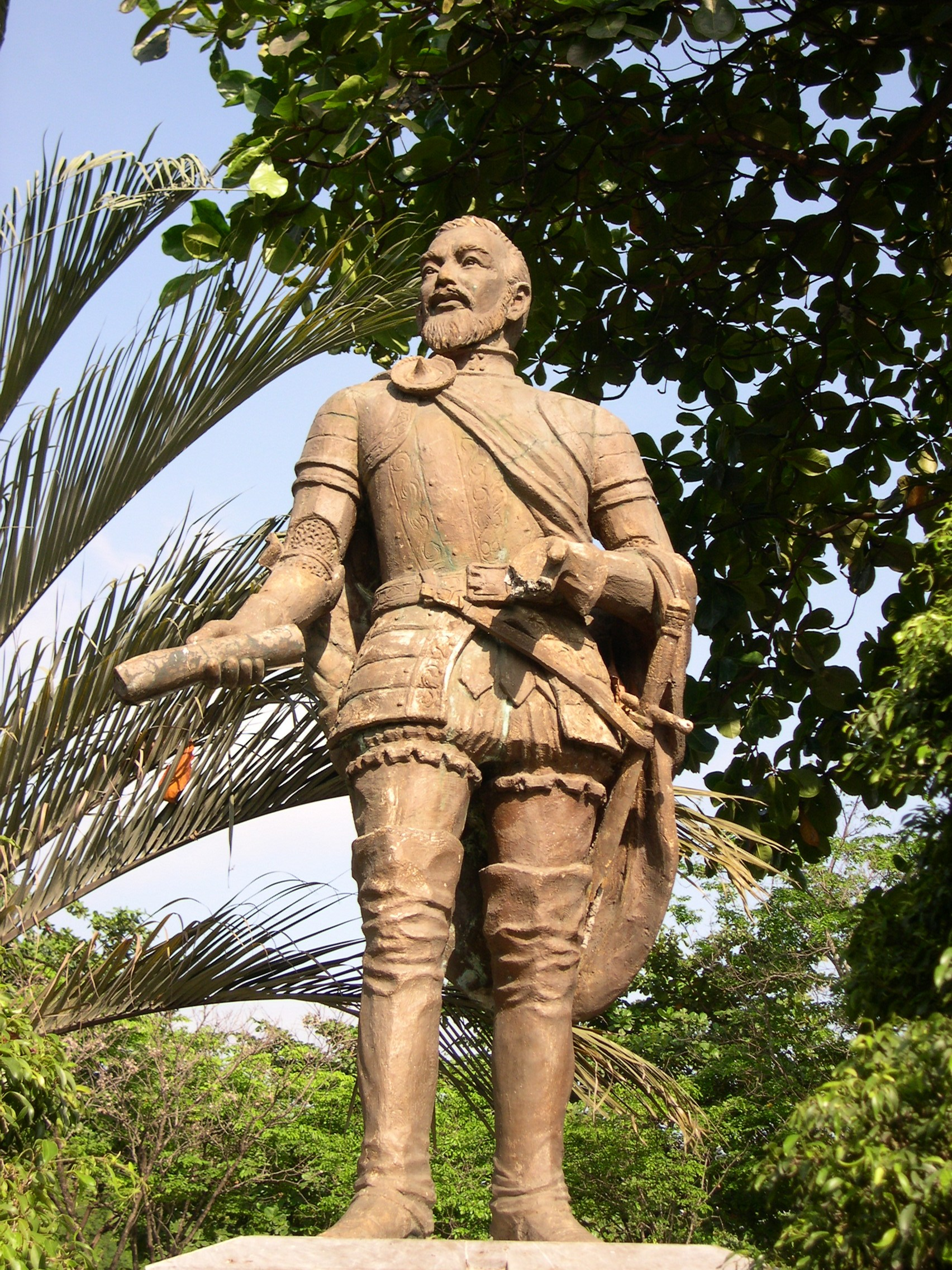 A statue of Miguel López de Legazpi (just outside of Fort San Pedro, Cebu City) the Spanish conquistador, who led Spain while they conquered the Philippines